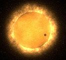 Artist's conception of a transit of Venus between Earth and Sun. Probably a detail taken from an animation provided by NASA's Goddard Space Flight Center. (TIFF image) Play media Source video of this Venustransit NASA.jpg